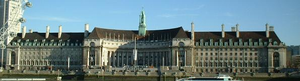 County Hall, London